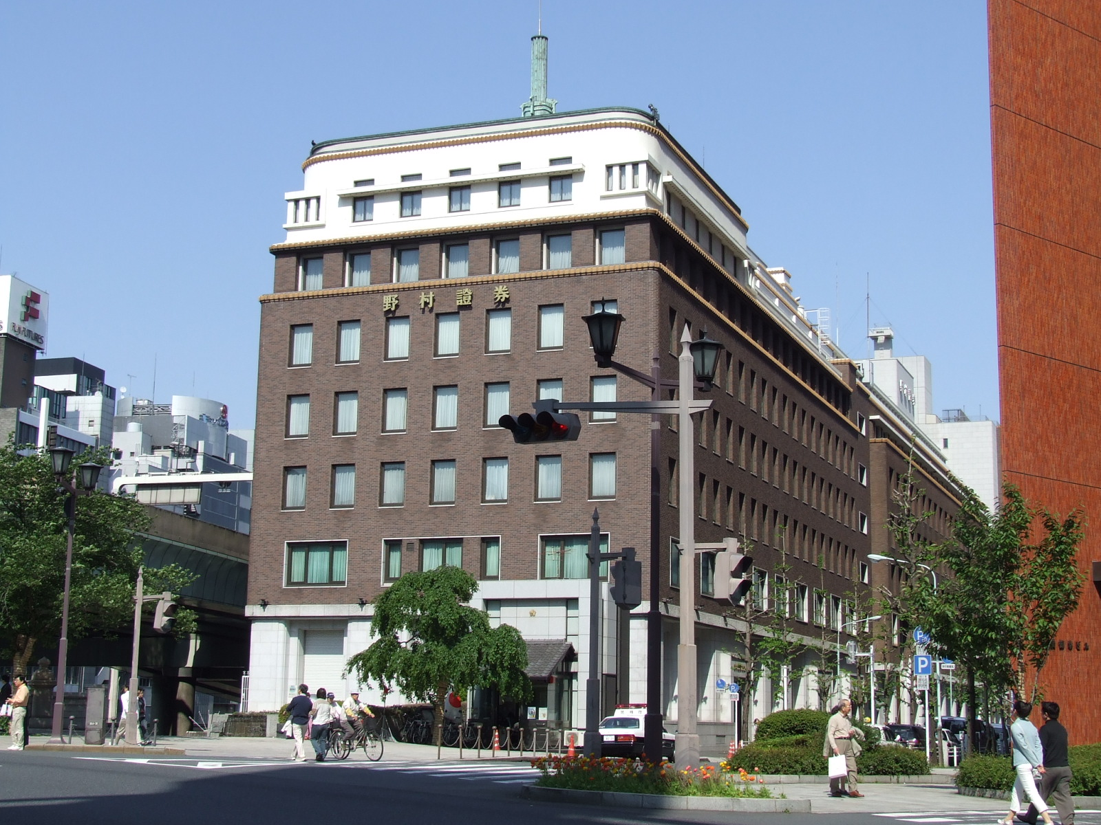 Nihonbashi Nomura Building, home for Nomura Holdings and Nomura Securities, in Chuo Ward, Tokyo, Japan